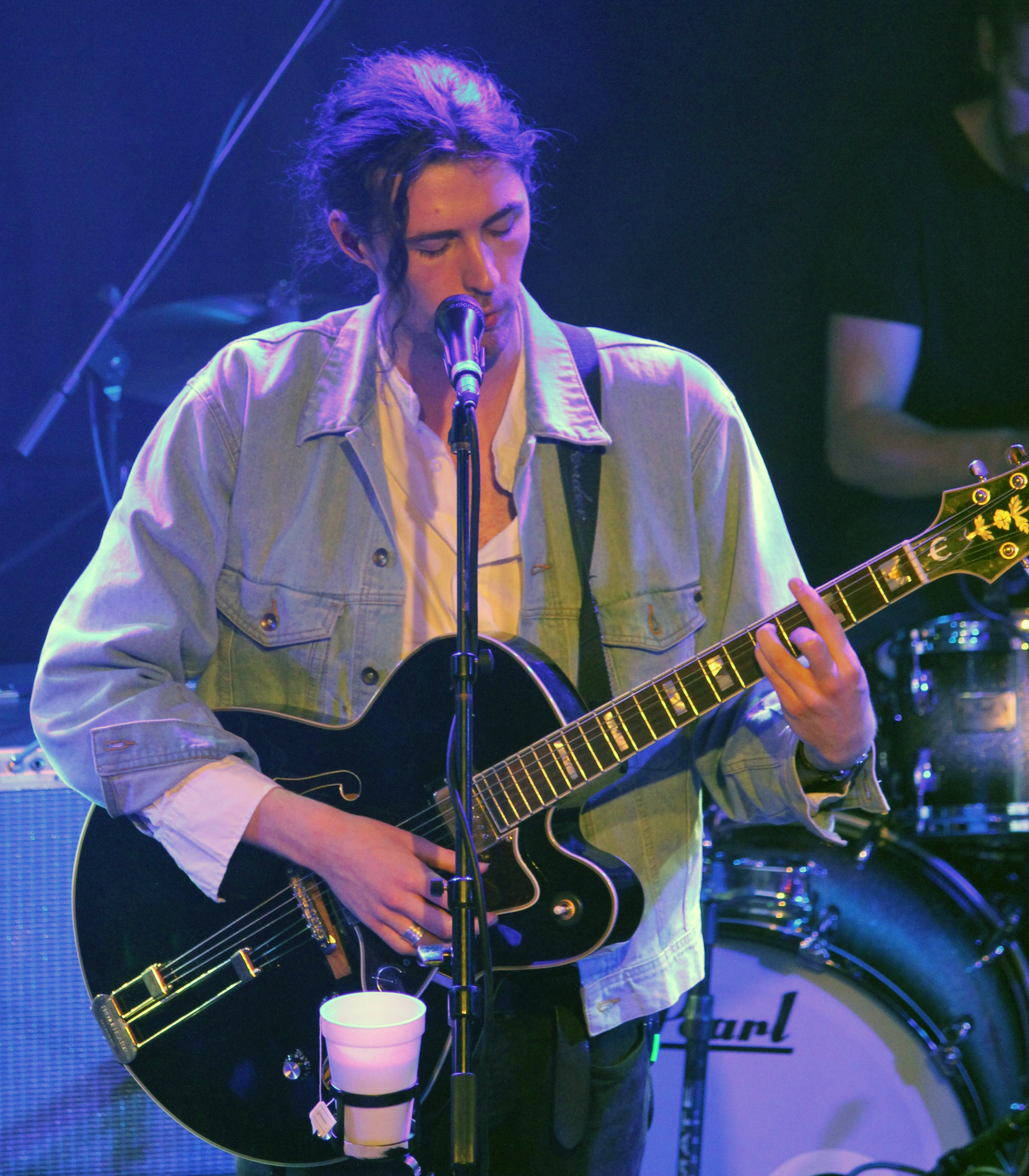 Hozier at the Troubadour in West Hollywood.